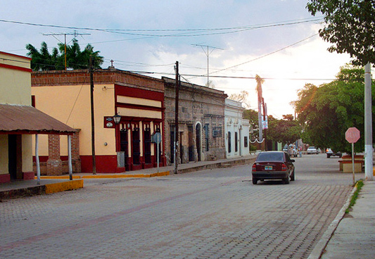 Streets of Mocorito